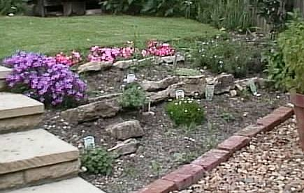 A rockery composed of small stones arranged to look like a natural rock outcrop. This tiny rock garden was photographed on 19th June 1999 in a garden in Tilbrook in the UK.